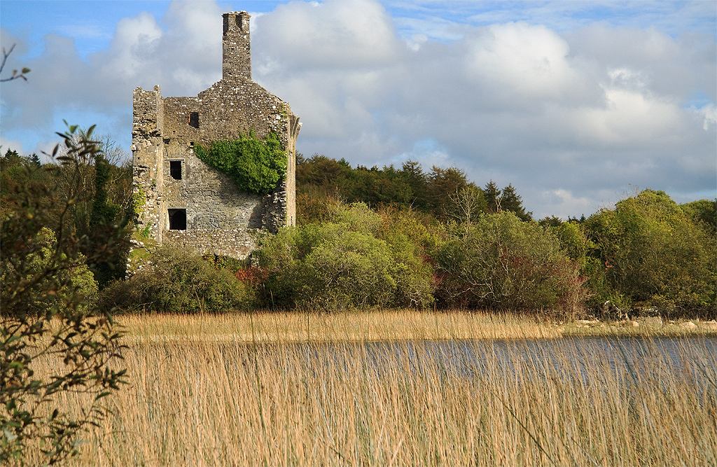 Castles of Munster: Dromore, Clare (2) A view showing the castle's location beside Dromore Lough.